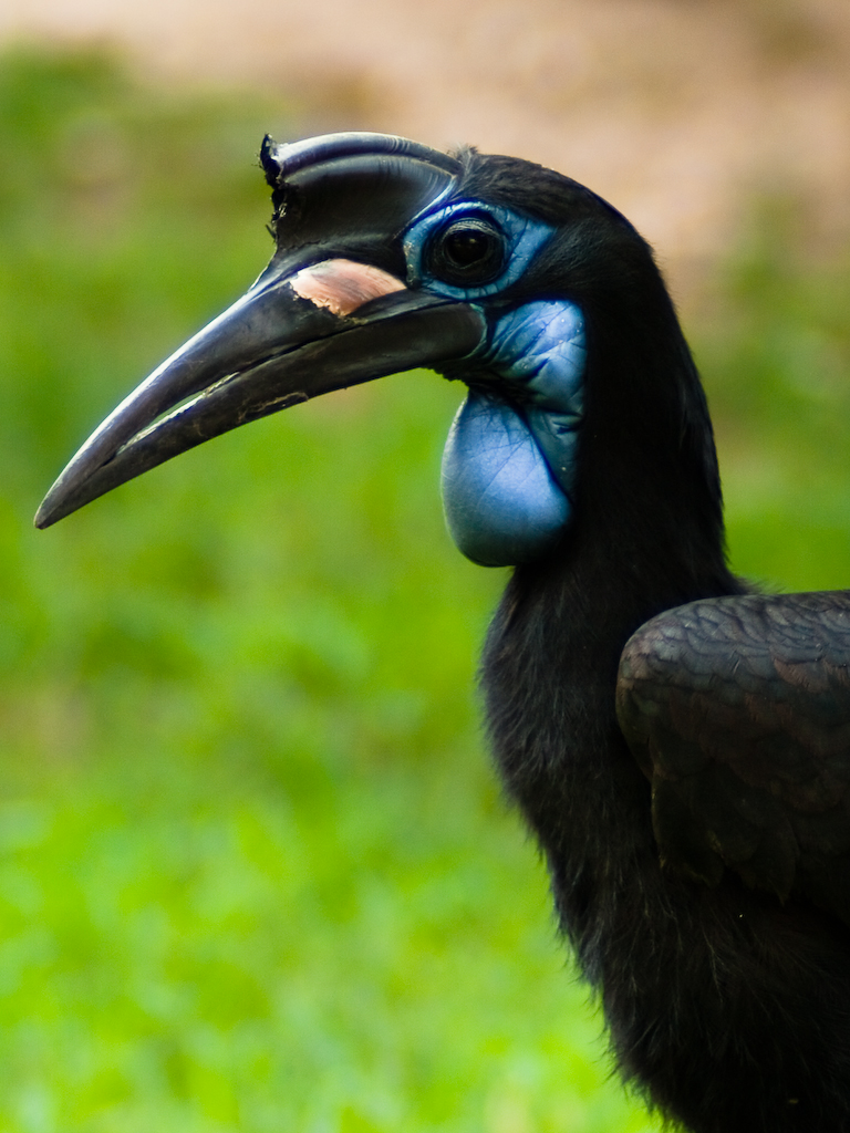 Abyssinian Ground-hornbill at Fort Worth Zoo, Texas, USA. Today the female (pictured here), spotted me and ran right up to the edge of the large enclosure to see what I was up to. It wasn't long before the male trotted up and handed over a mouse for a quick lunch.